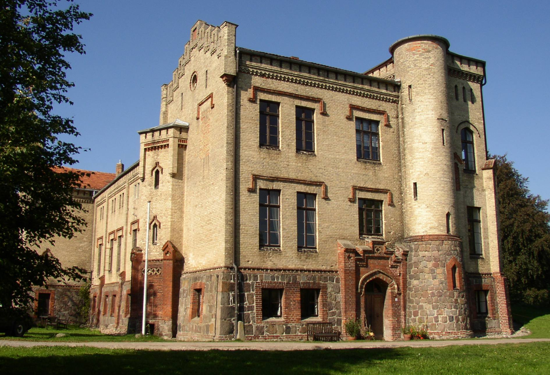 Moltzow manor in Mecklenburg-Western Pomerania, Germany